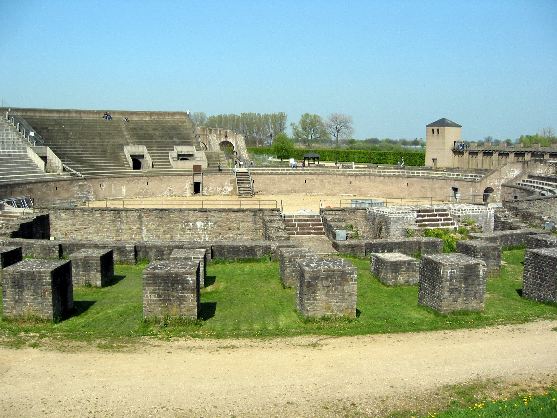 Photo taken April 23, 2005, by Magnus Manske, with expressed verbal permission. Colors/contrast enhanced with Picasa.